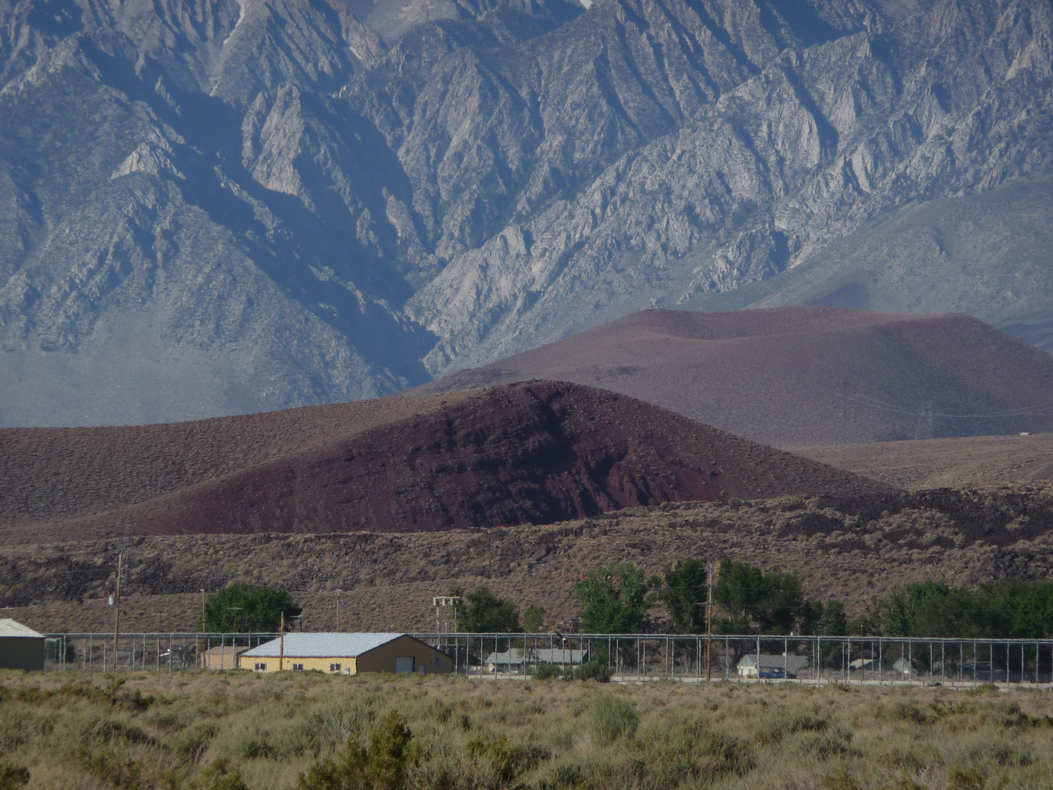 The Big Pine volcanic field and cinder cone — in the Owens Valley, with the Eastern Sierra in backround. Located near Big Pine and Fish Springs, in Inyo County, eastern California.